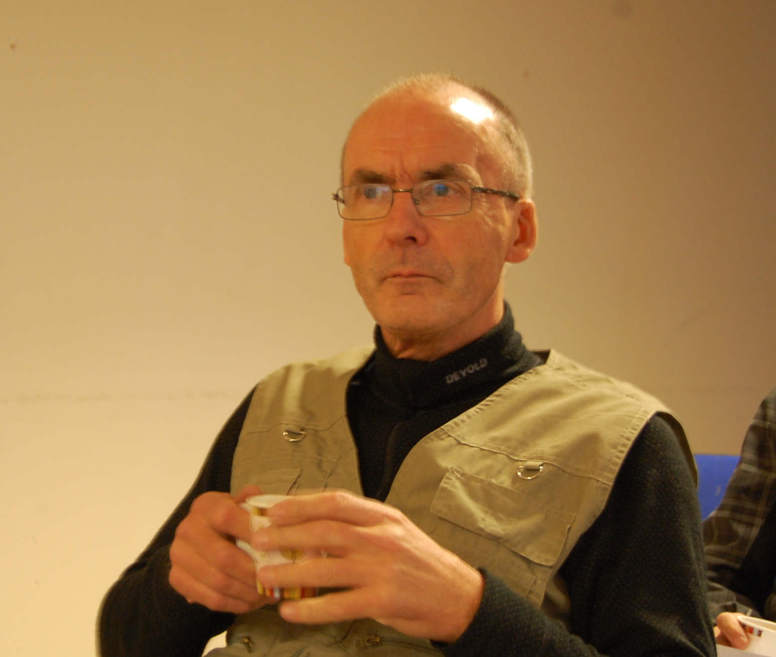 Norwegian politician Erling Folkvord